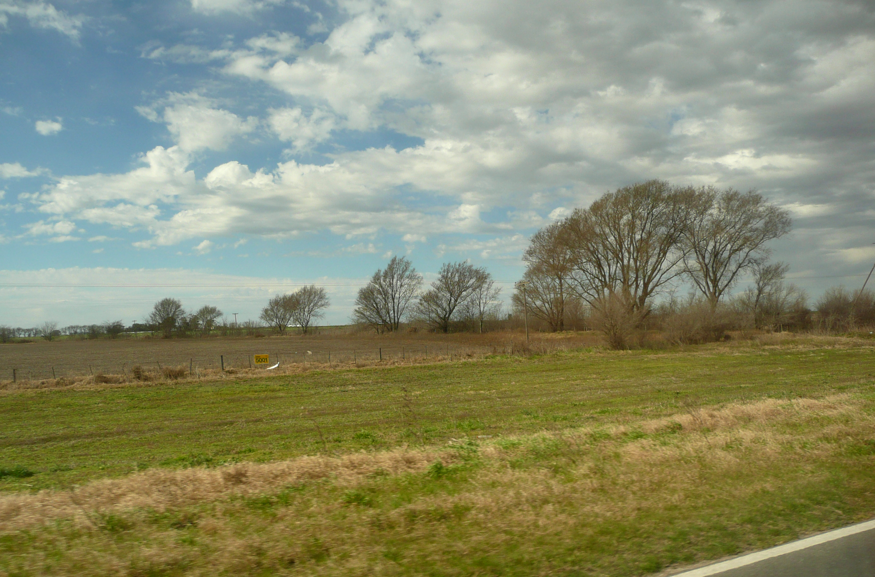 Route between Fortín Olavarría and Trenque Lauquen, a 50 km tract in the Argentine pampas. Buenos Aires Province, Argentina.